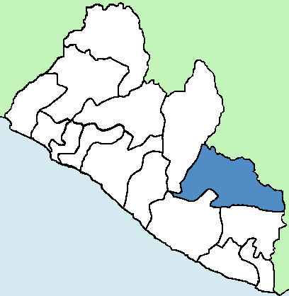 Map showing location of Grand Gedeh County in Liberia